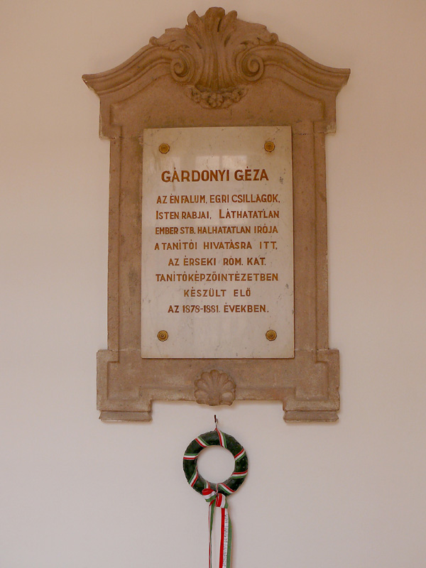 Memorial tablet of Hungarian writer Géza Gárdonyi in the Líceum, Eger